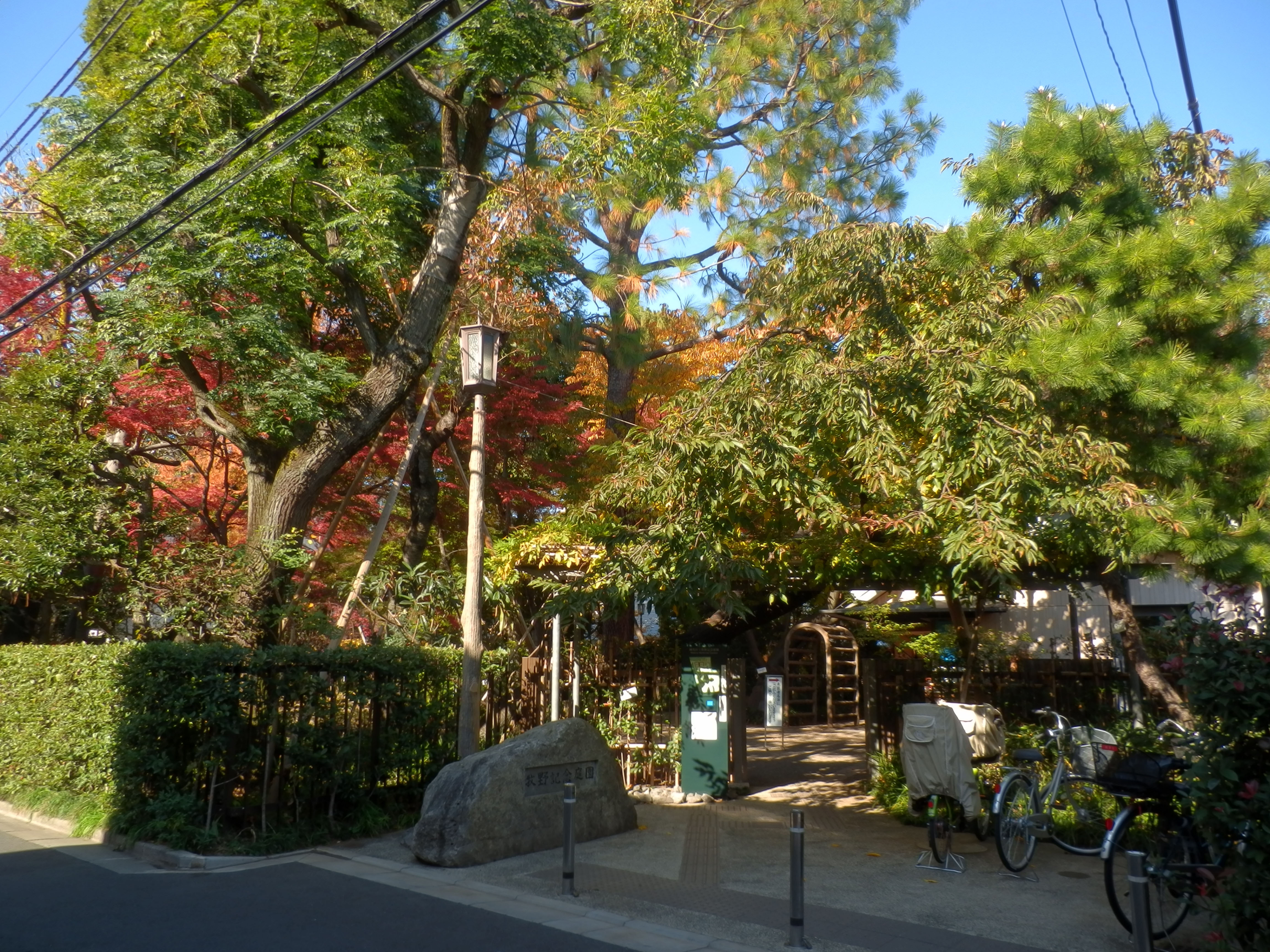 Makino Memorial Garden (Botanical garden in Tokyo, Japan)